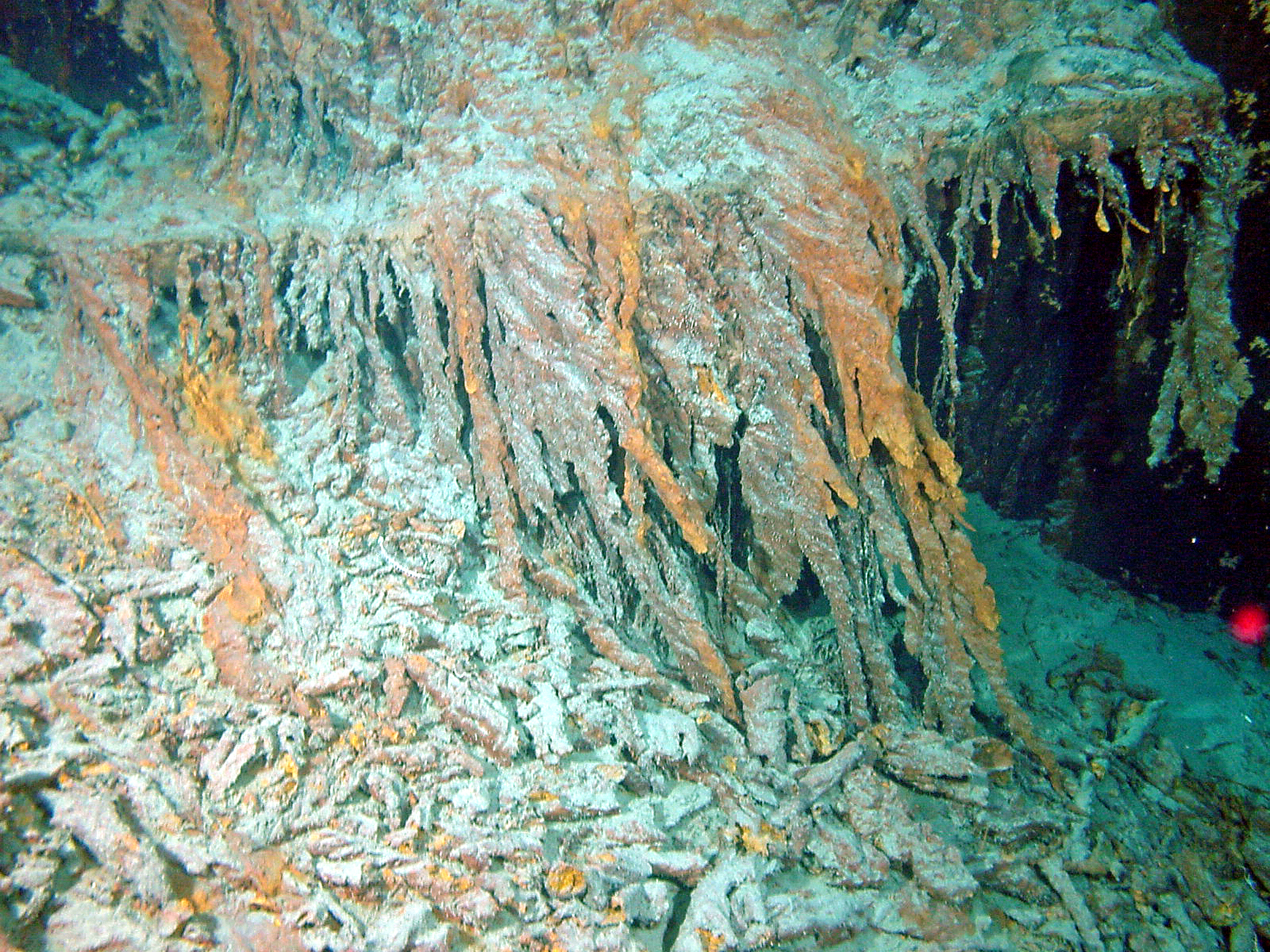 Detached rusticles below port side anchor indicating that the rusticles pass through a cycle of growth, maturation and then fall away. This particular “crop” probably was in a five to ten year cycle. Image courtesy of Lori Johnston, RMS Titanic Expedition 2003, NOAA-OE.